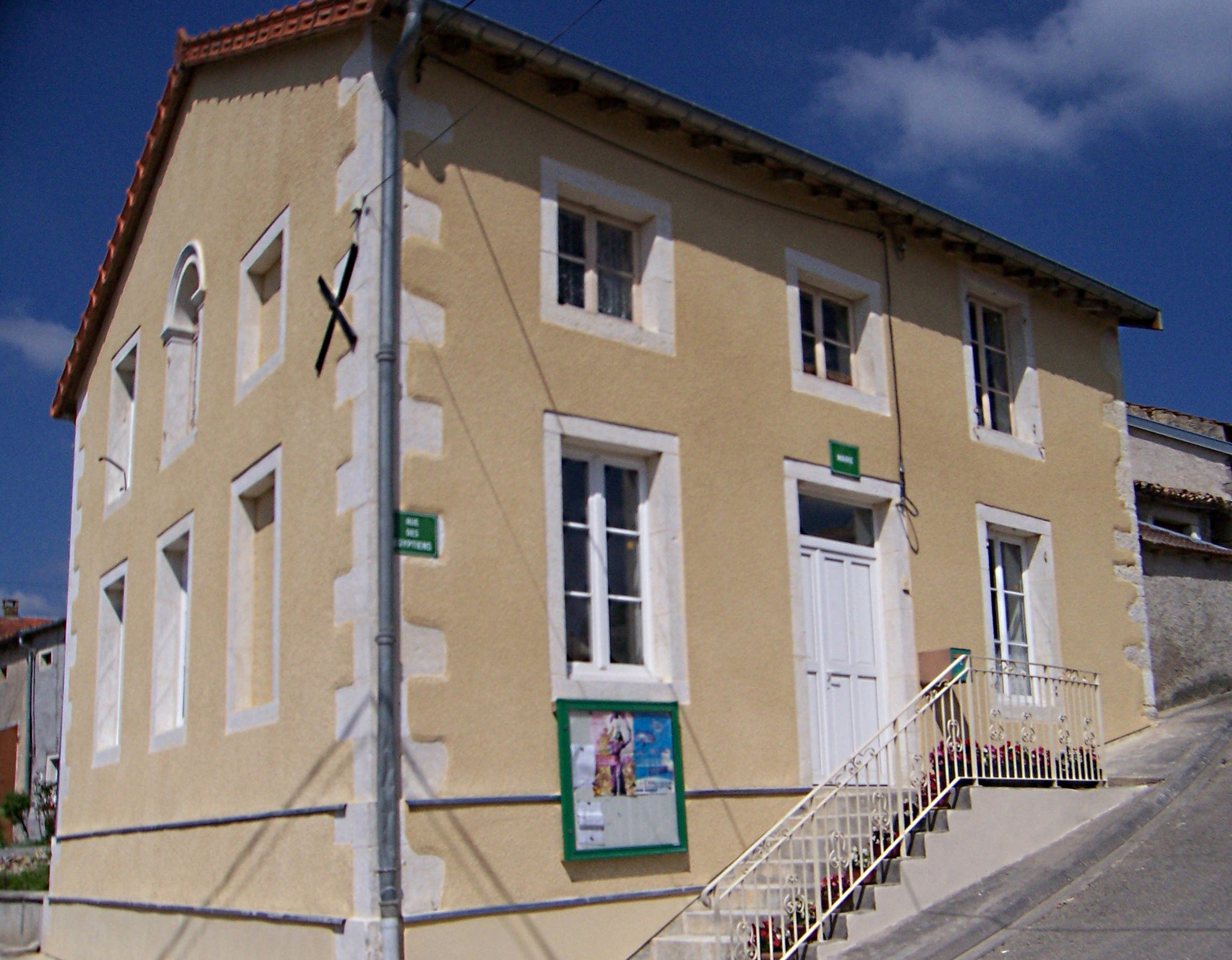 Town hall of Clérey-la-Côte, department of Vosges, France, after renovation